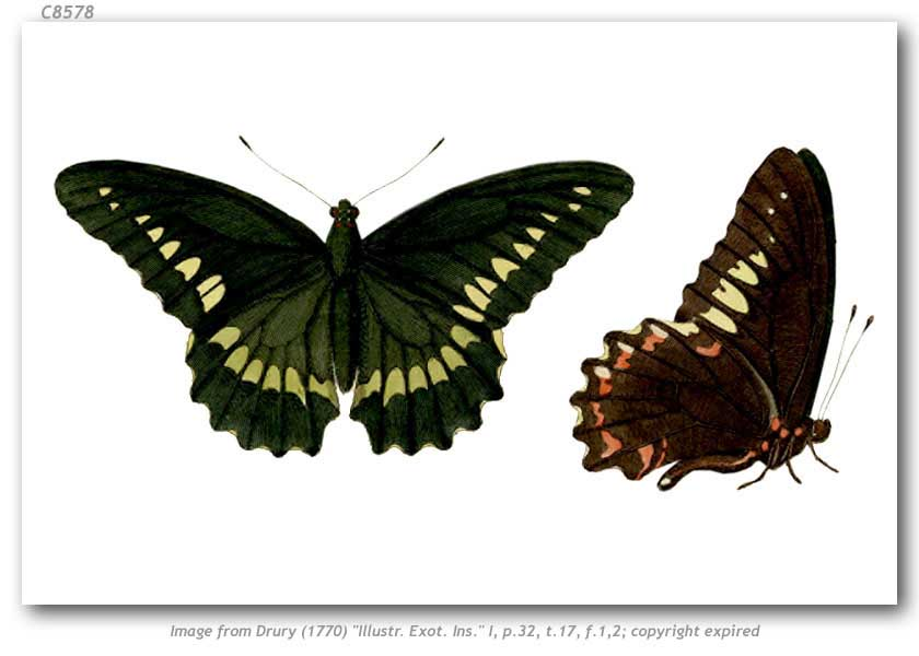 Plate of the extinct Antigua Polydamas Swallowtail by Dru Drury (1770)